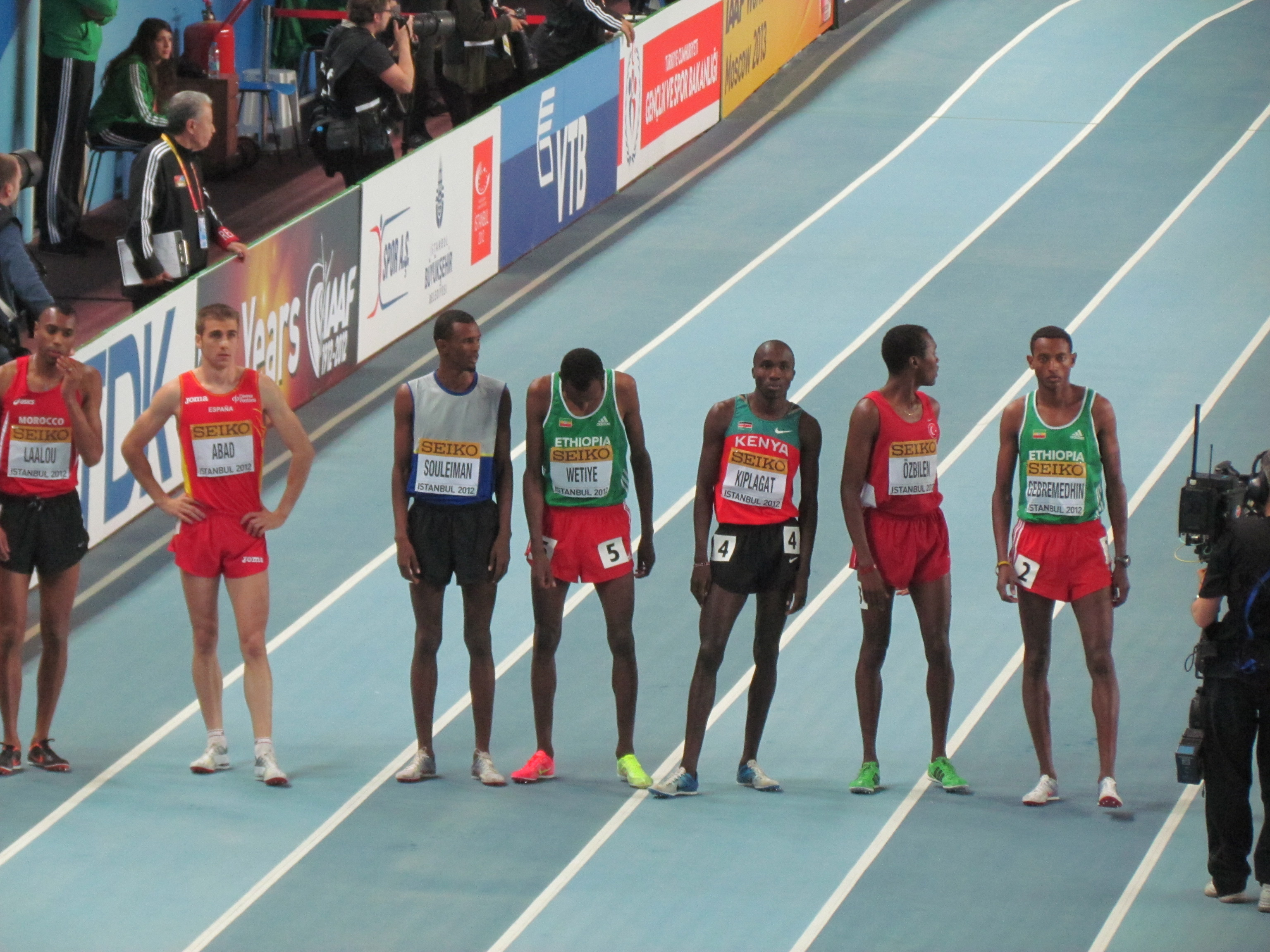 The 2012 IAAF World Indoor Championships in Athletics was the 14th edition of the global-level indoor track and field competition and was held between March 9–11, 2012 at the Ataköy Athletics Arena in Istanbul, Turkey. Amine Laalou, Francisco Javier Abad, Ayanleh Souleiman, Aman Wote, Silas Kiplagat, Ilham Tanui Özbilen, Mekonnen Gebremedhin